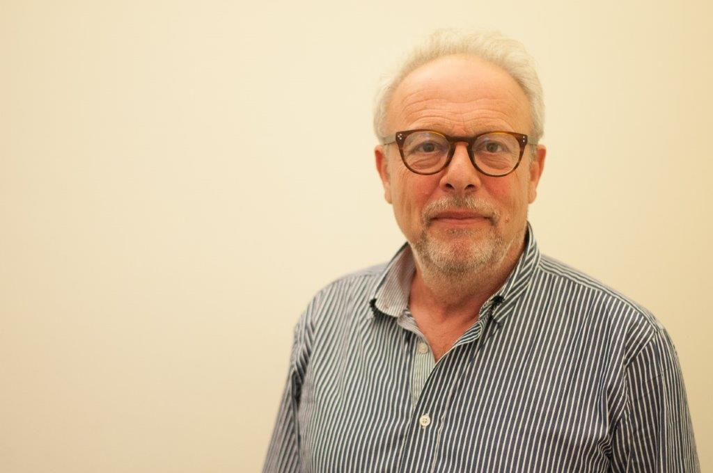 Gabriel Heim